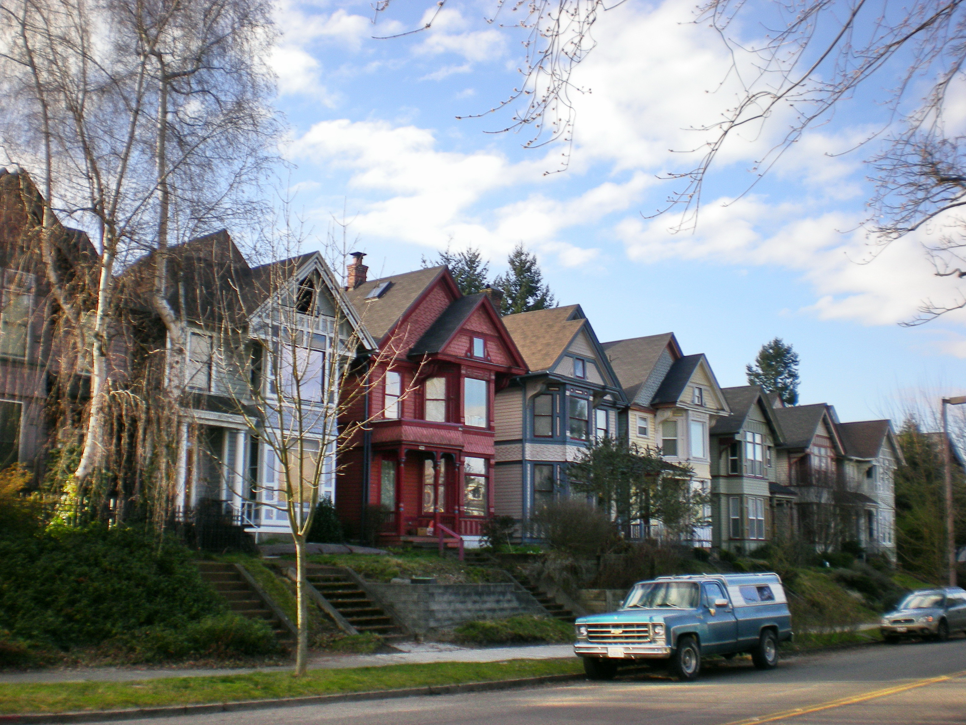 The homes of the South J Street Historic District in Tacoma, Washington